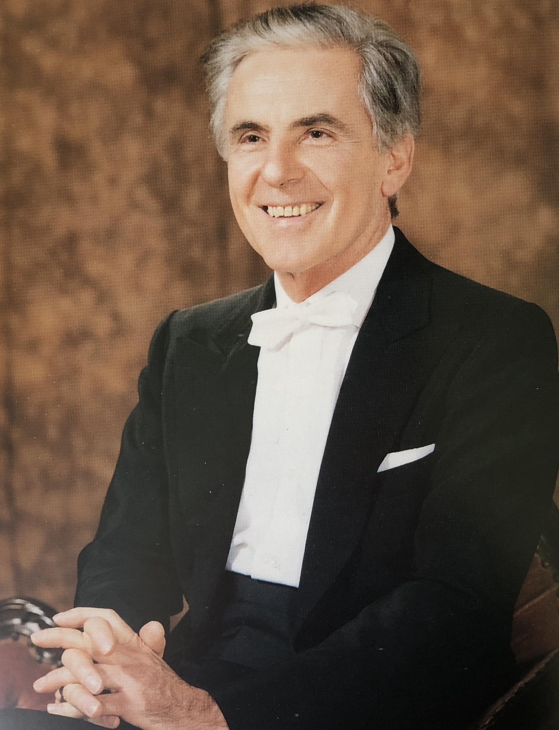 The file represent Mº Giacomo Zani